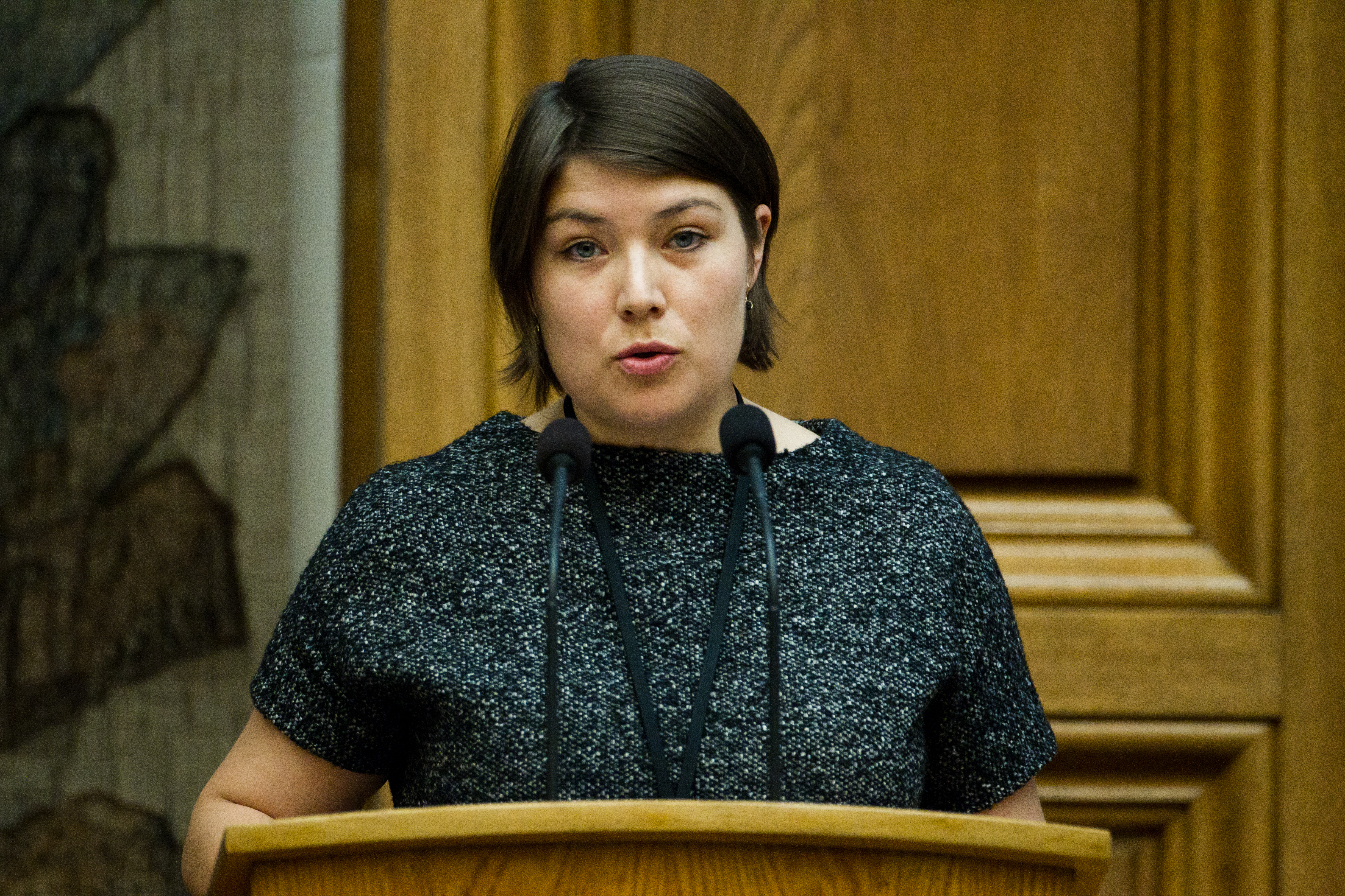 Sara Olsvig vid Nordiska Rådets session 2011 i Köpenhamn. Keywords: Sara Olsvig (IA)